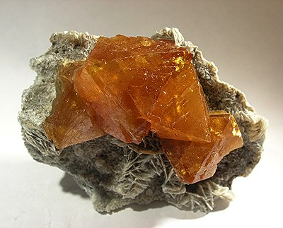 Muscovite, Scheelite Locality: Mt Xuebaoding, Pingwu County, Mianyang Prefecture, Sichuan Province, China (Locality at ) Size: small cabinet, 6.9 x 5 x 4.3 cm Scheelite on Muscovite This plate has deep orange-colored scheelites, to 2.5 cm on edge, nicely perched atop a well-trimmed matrix! The color is unusually rich and deep, and the lustre is good . A good, rich plate for the price from the same pocket as produced the other unusually dark-orange crystals shown above